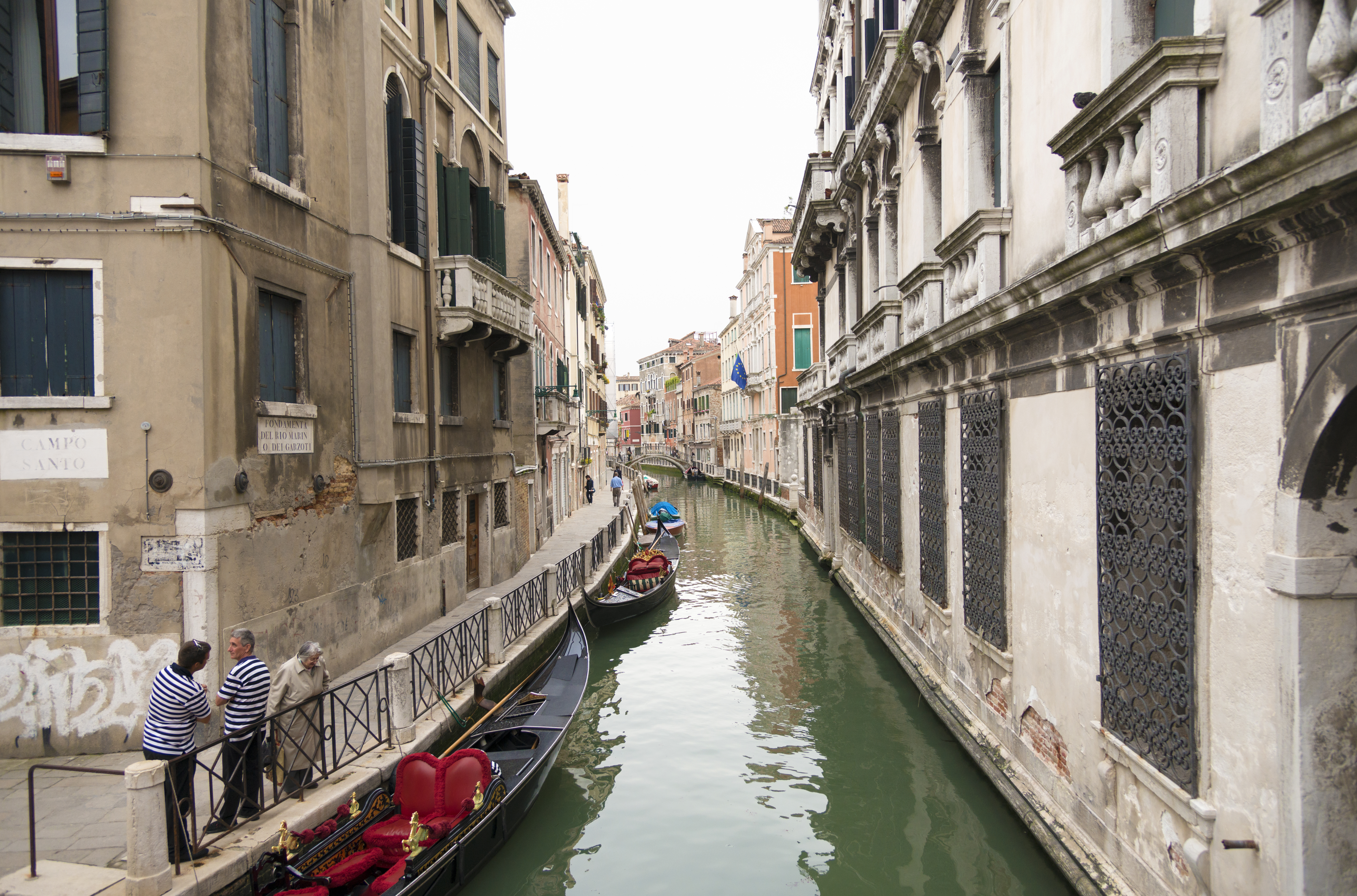 Rio marin view on the “Ponte de la Bergami”, Venice View to the Southest.